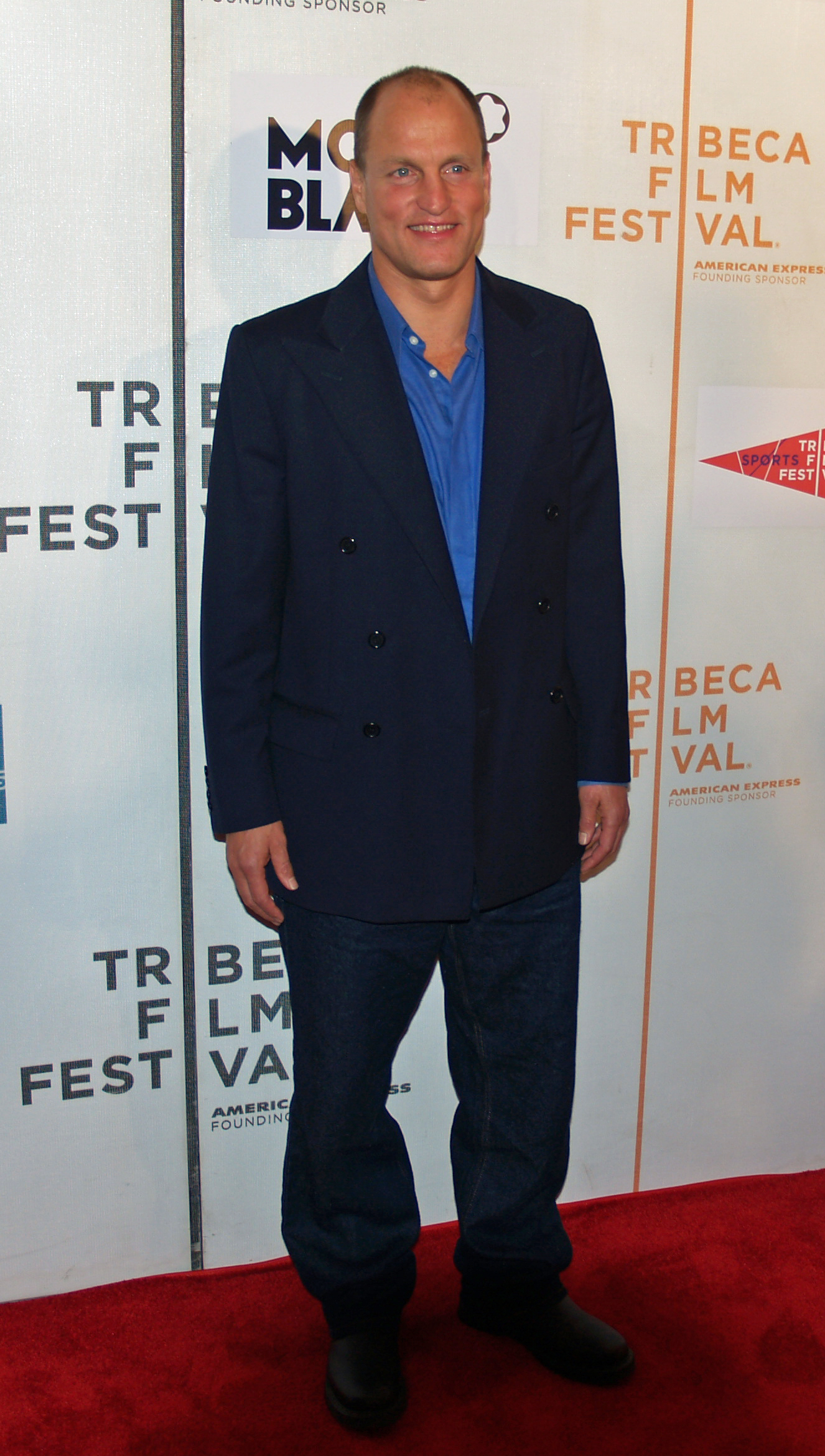 Woody Harrelson